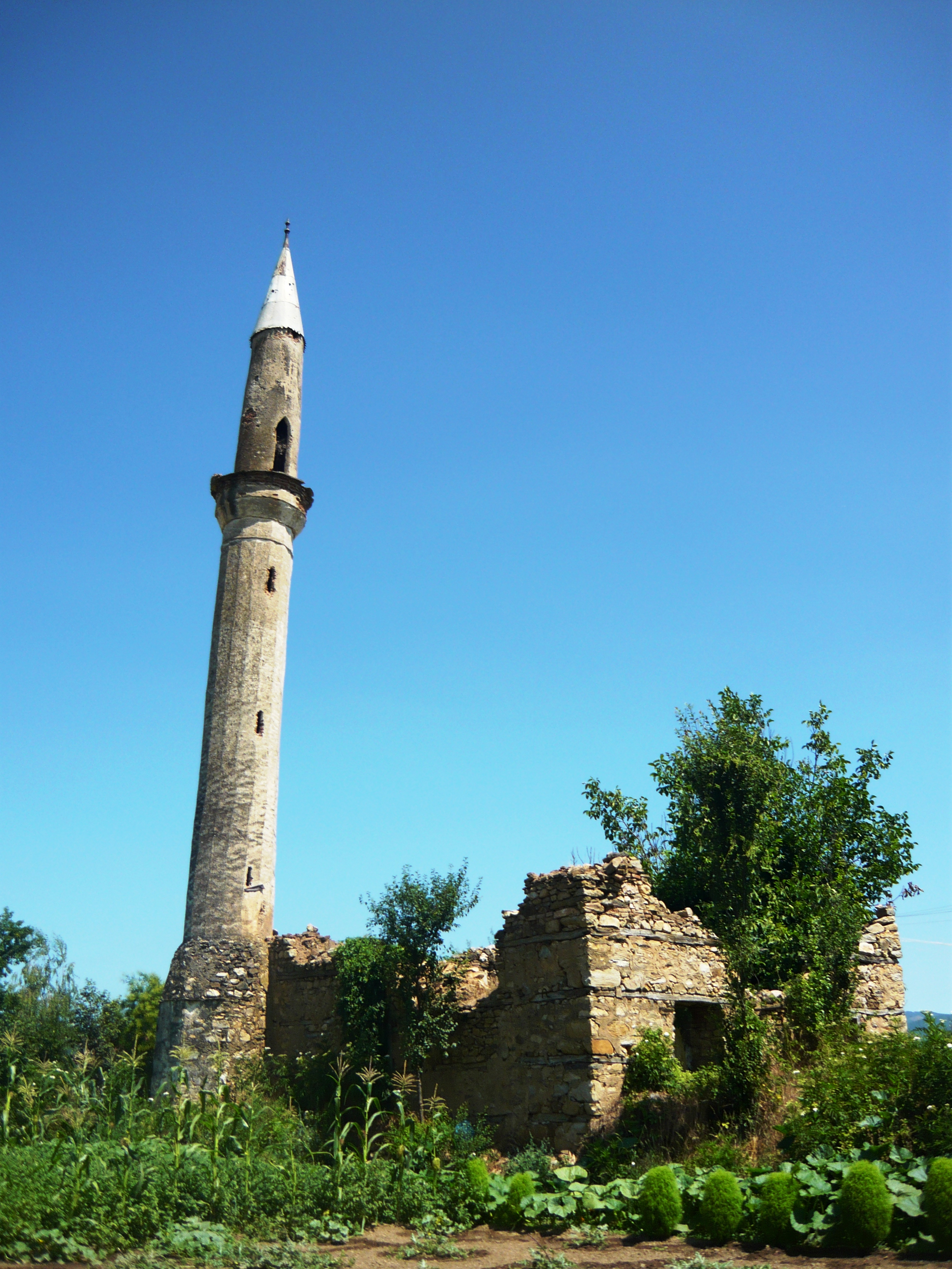 Џамија во Мургашево (Демир Хисар) од османлискиот период